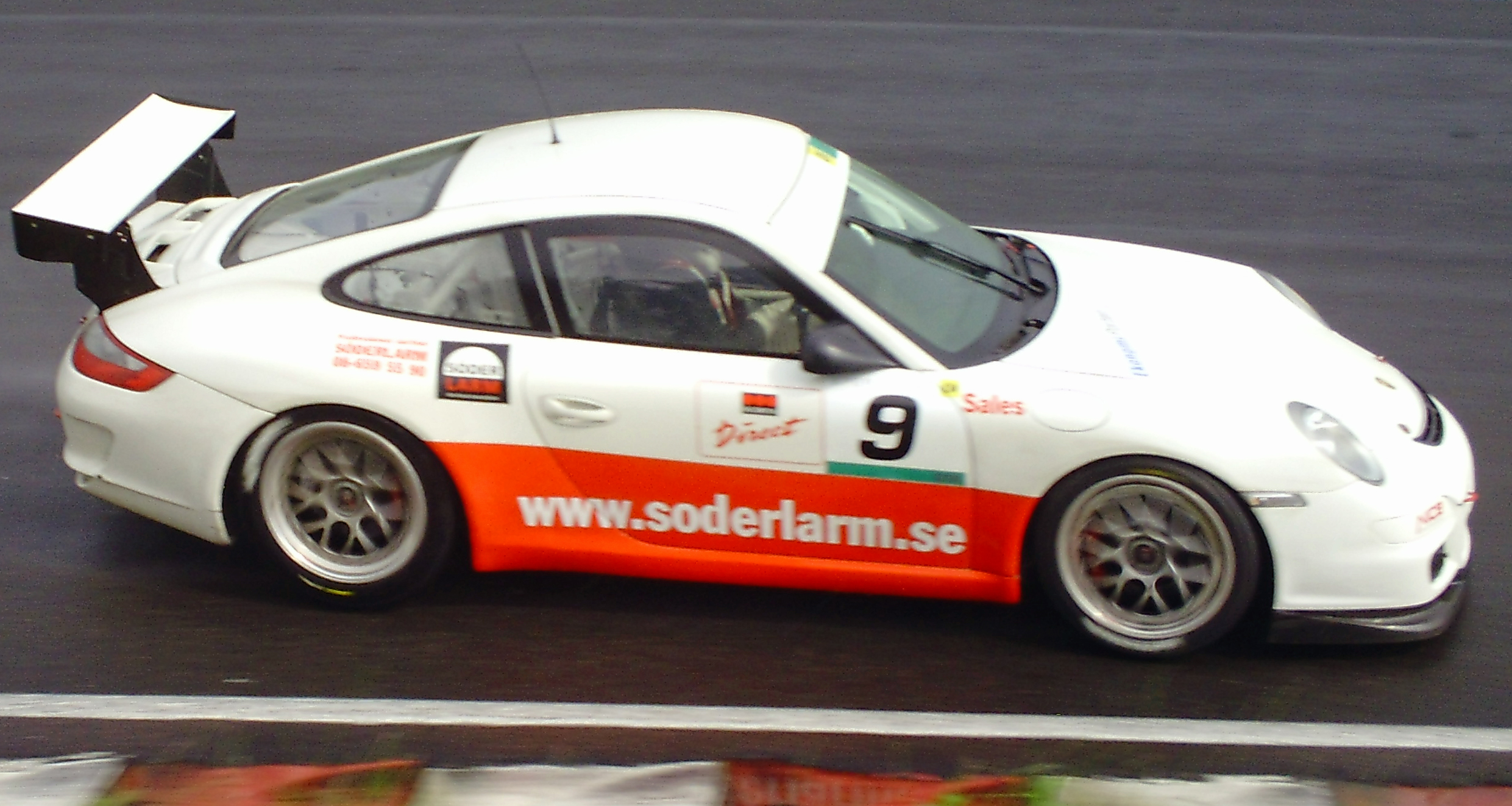 A Porsche 997 Cup driven by Jocke Mangs and Håkan Ricknäs for Ricknäs Motorsport in Swedish GT Series at Falkenbergs Motorbana, 2011